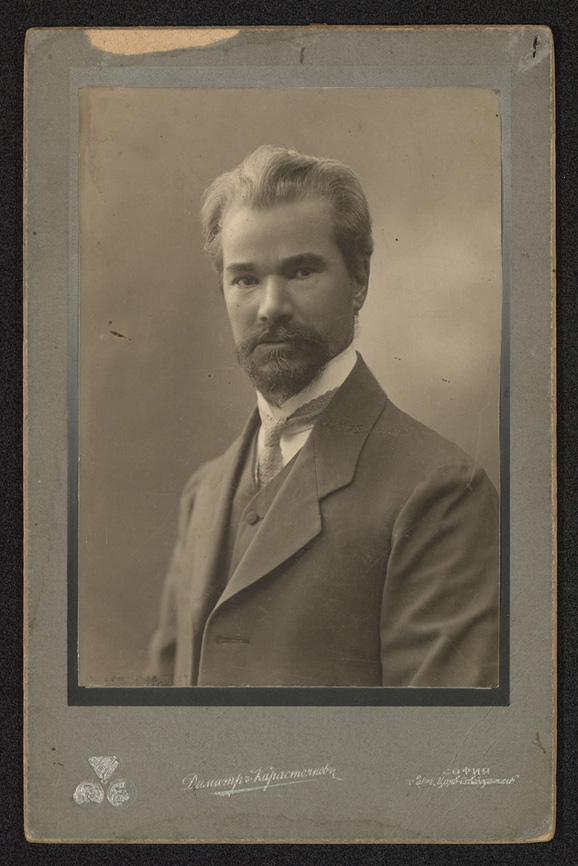 Photo of young Todor Vlaykov (1865-1943), Bulgarian writer